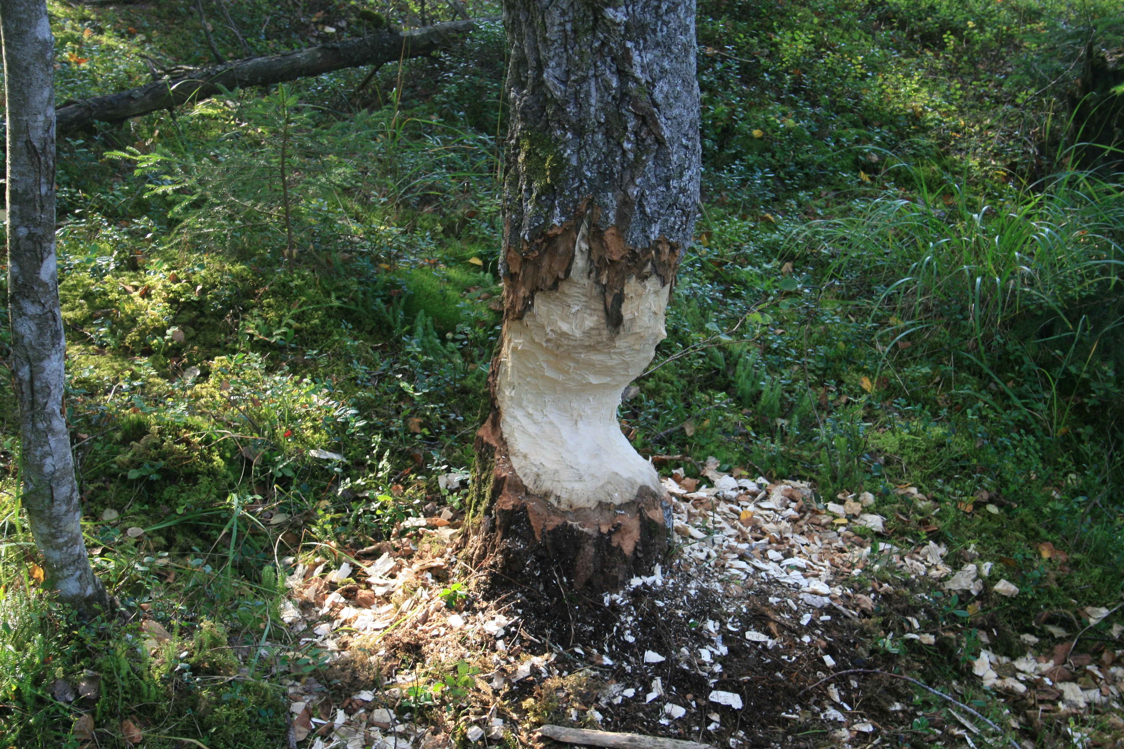 Beaver tree marks in Tyresta